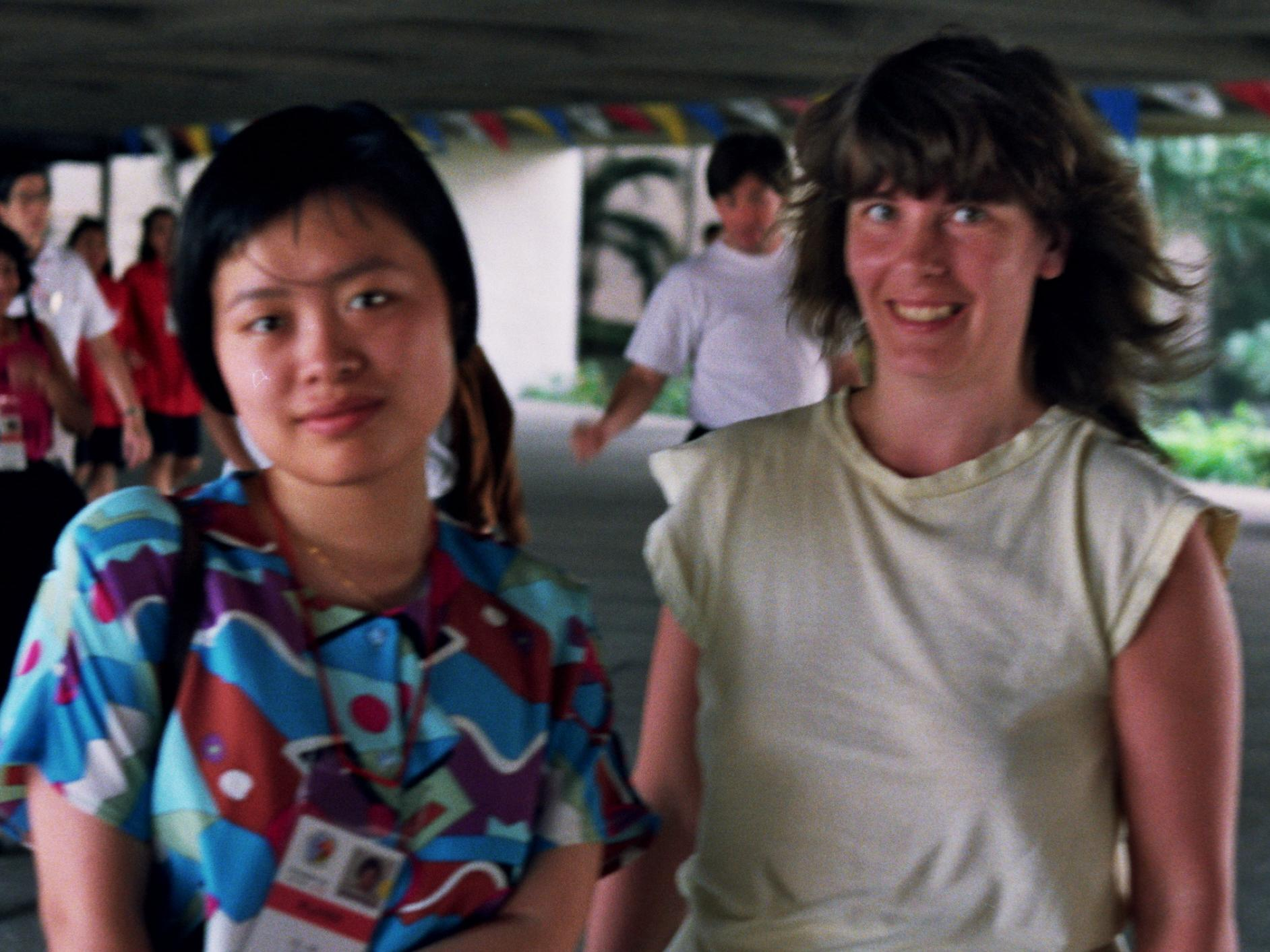 World champion Xie Jun and Barbara Hund, Chess Olympiad 1992, Photographer Gerhard Hund.